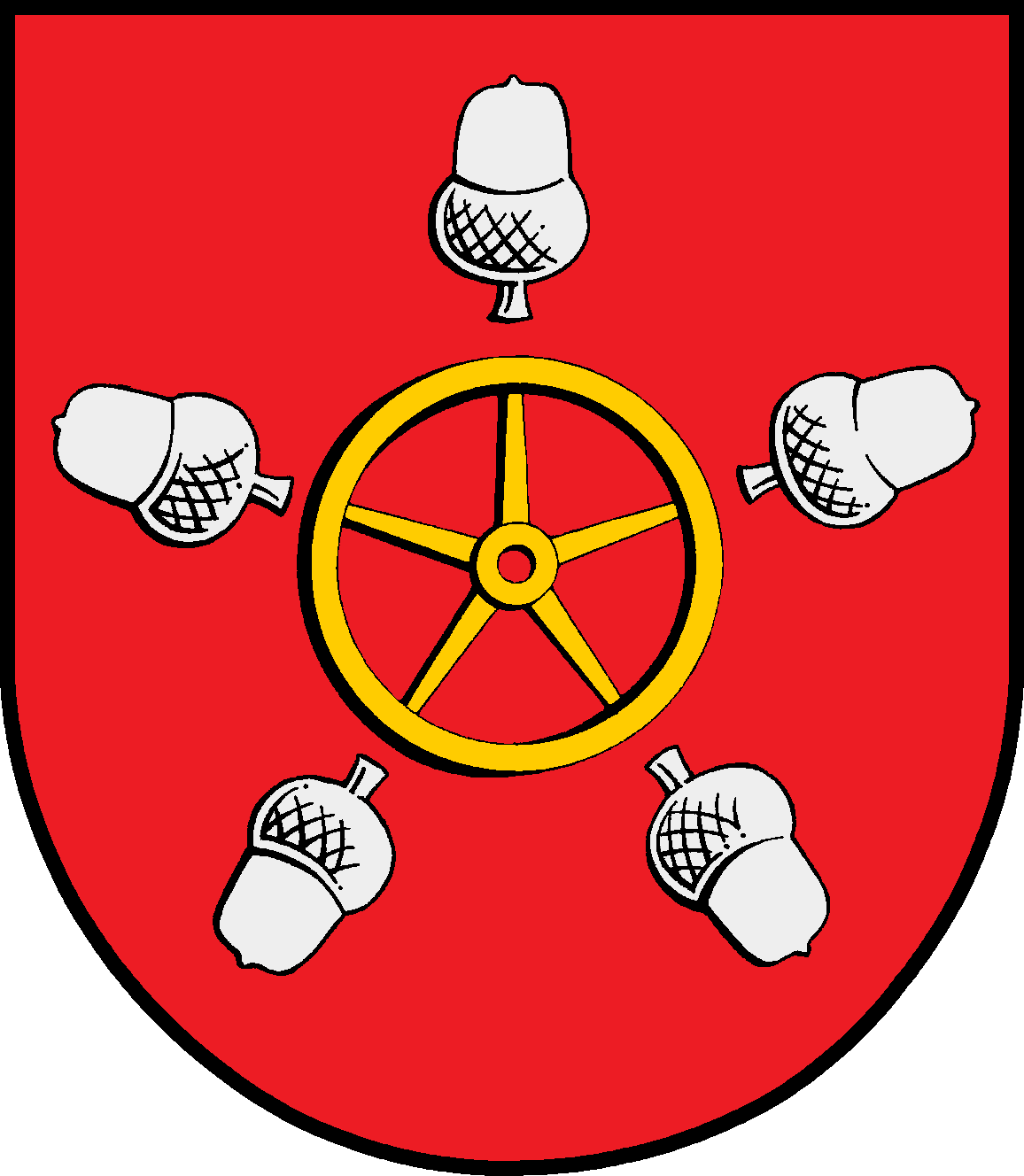 Coat of arms of the Amt (county) Aukrug in Schleswig-Holstein, Germany.